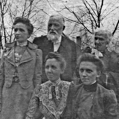 Henry Clubb pictured with his wife and daughters